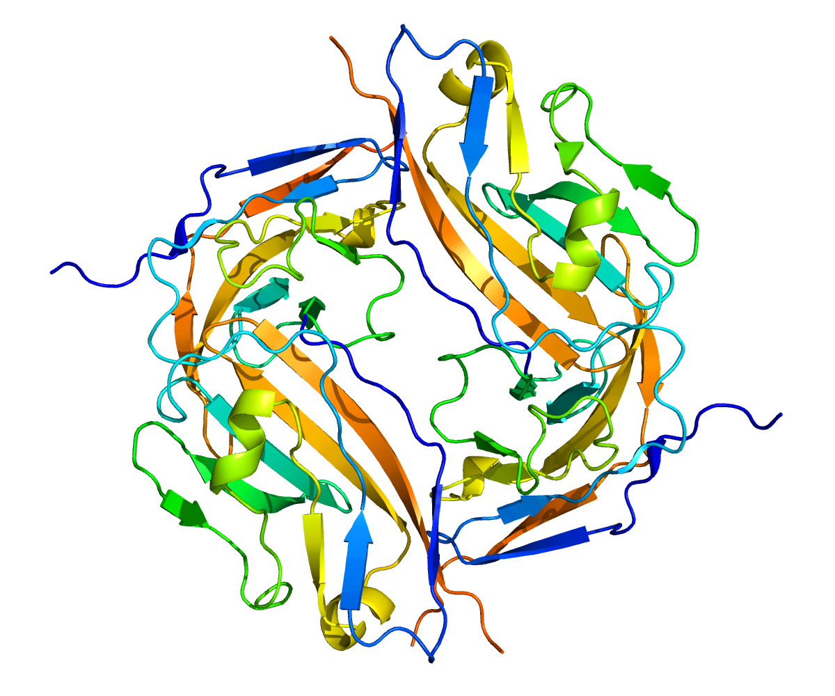 Structure of protein CD47.Based on PyMOL rendering of PDB 2JJS.